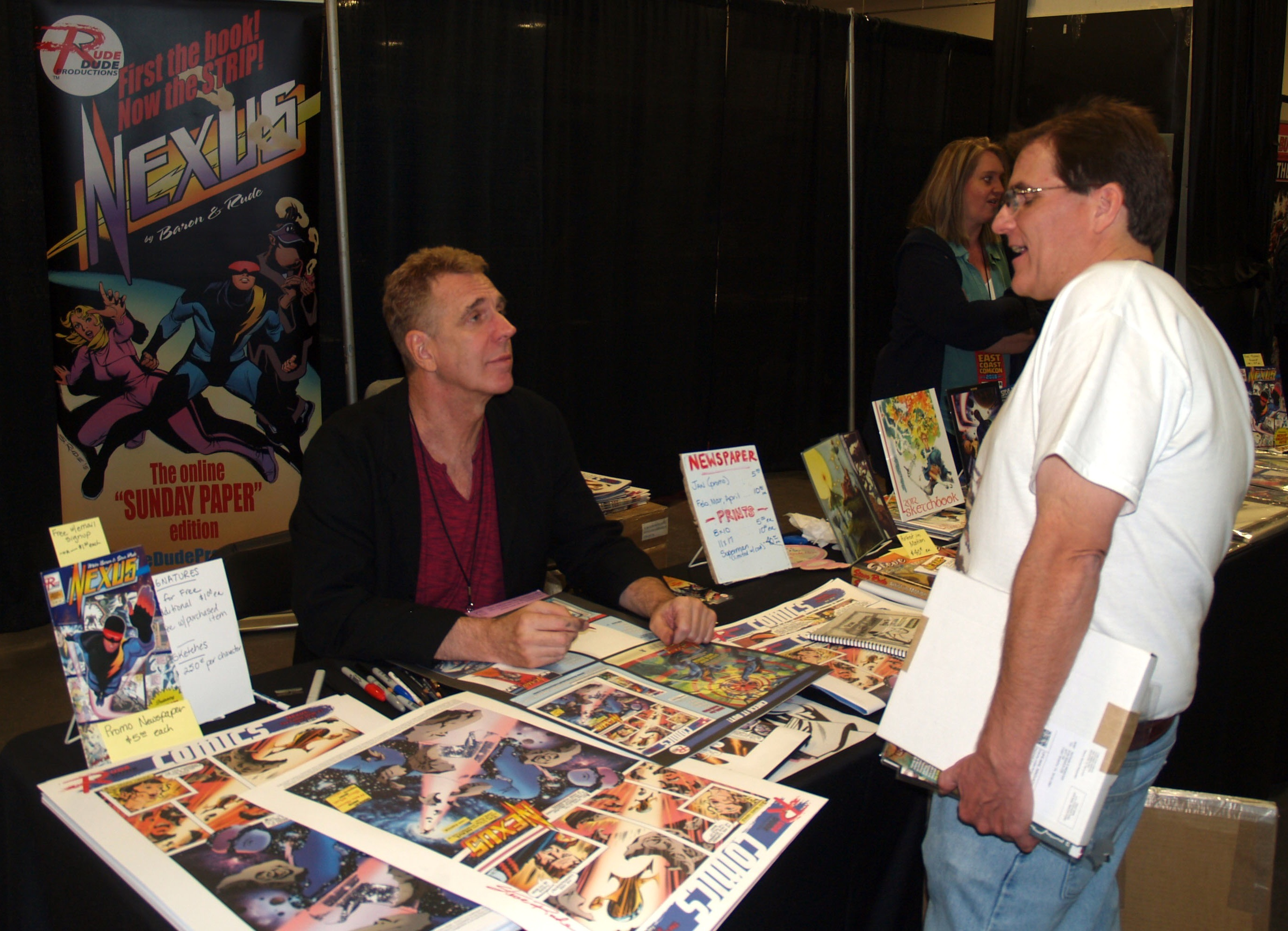 Comics creator Steve Rude (seated behind the table) speaks with a fan at the Meadowlands Exposition Center in Secaucus, New Jersey on April 16, 2016, Day 1 of the 2016 East Coast Comicon. This photo was created by Luigi Novi. It is not in the public domain, and use of this file outside of the licensing terms is a copyright violation.